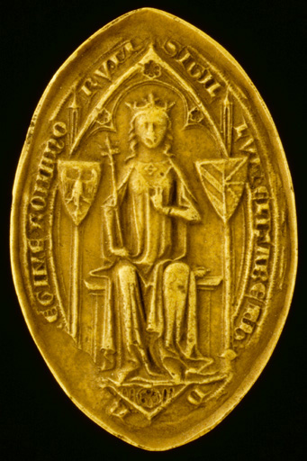 Isabelle of Burgundy